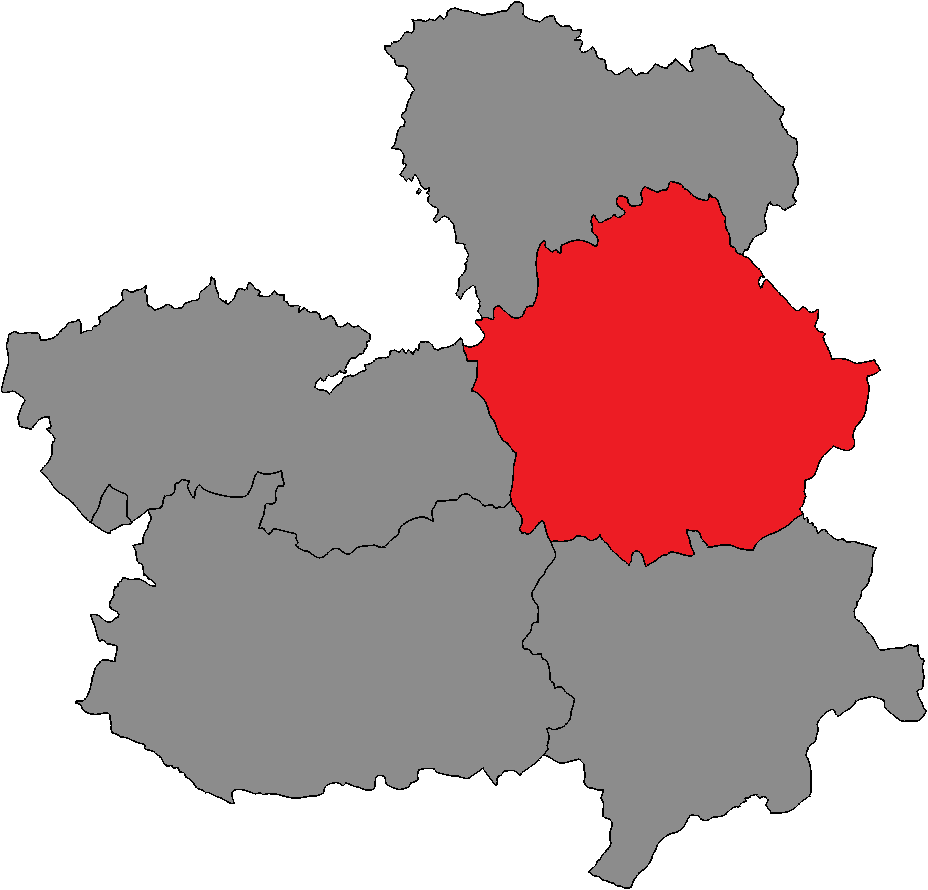 Cortes of Castilla-La Mancha district of Cuenca.